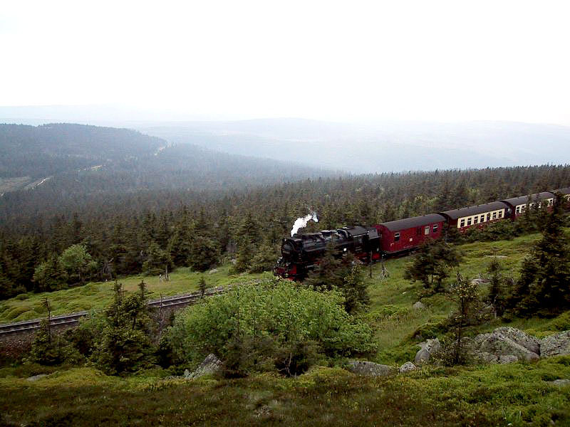 The Brocken Bahn is a steam engine which provides regular service to the summit. Picture reprocessed by Adrian Pingstone to darken and sharpen.